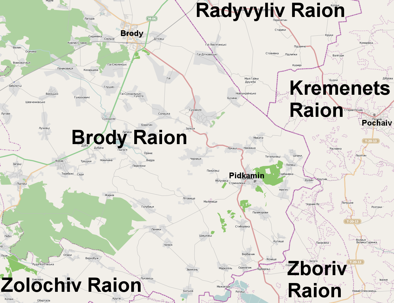 Location of the town of Pidkamin